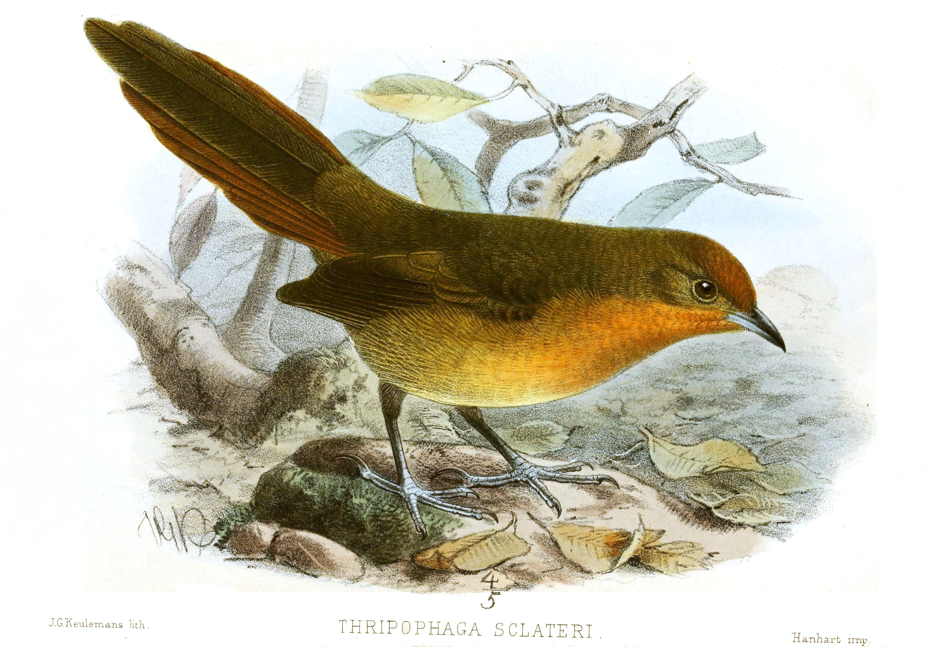 Thripophaga sclateri = Asthenes sclateri